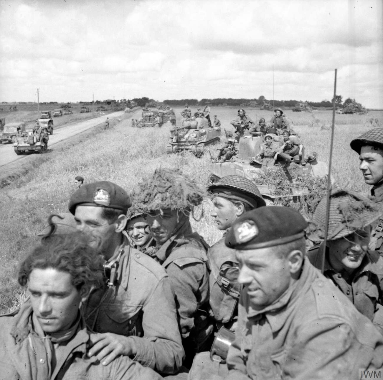 The British Army in Normandy 1944 Infantry of the 3rd Monmouthshire Regiment aboard Sherman tanks of the 2nd Fife and Forfar Yeomanry wait for the order to advance, near Argentan, 21 August 1944.